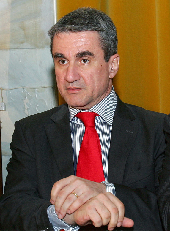 Greek politician Andreas Loverdos during a book presentation in Athens, Greece, on 25/01/2011.